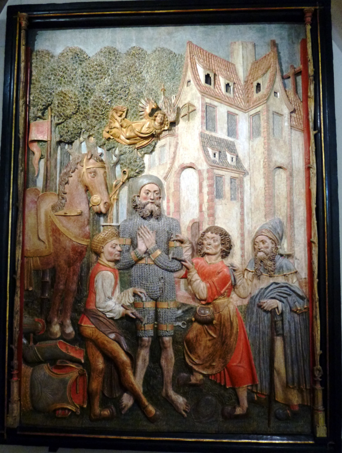 16th-century Renaissance relief: the conversion of St William of Aquitany